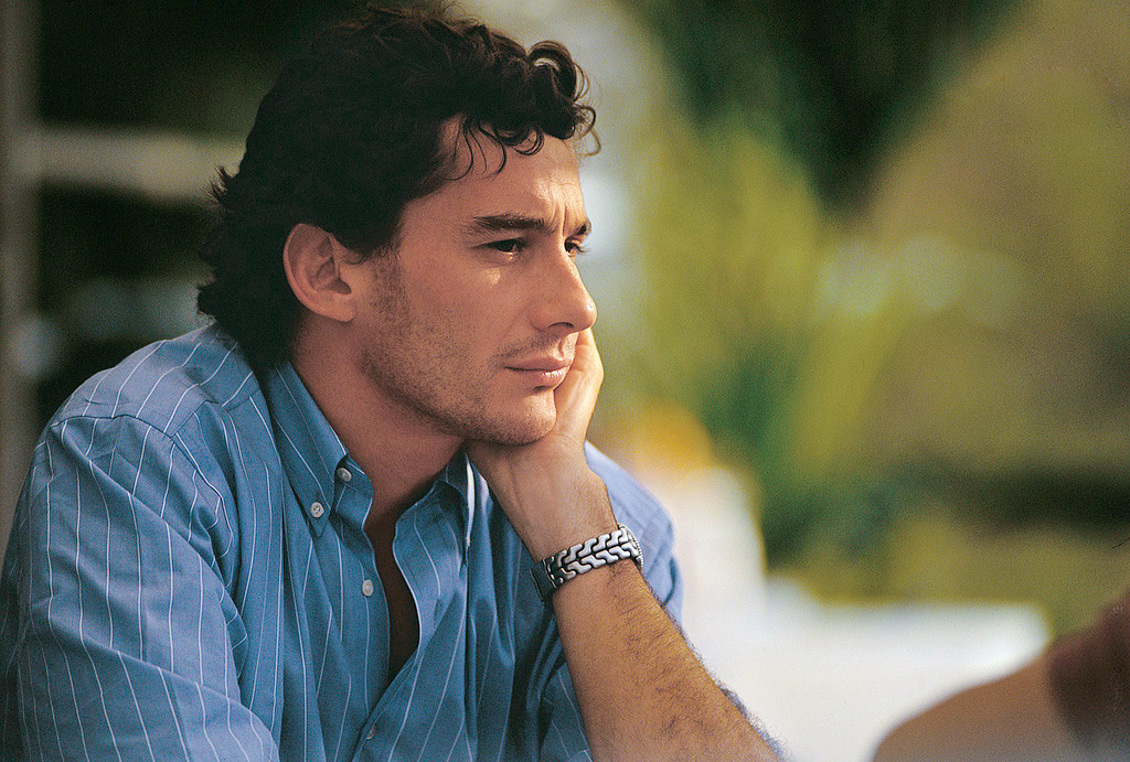 Ayrton Senna in a relaxed pose